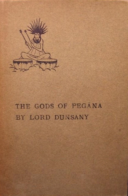 cover of The Gods of Pegana by Lord Dunsany for illustration of an article